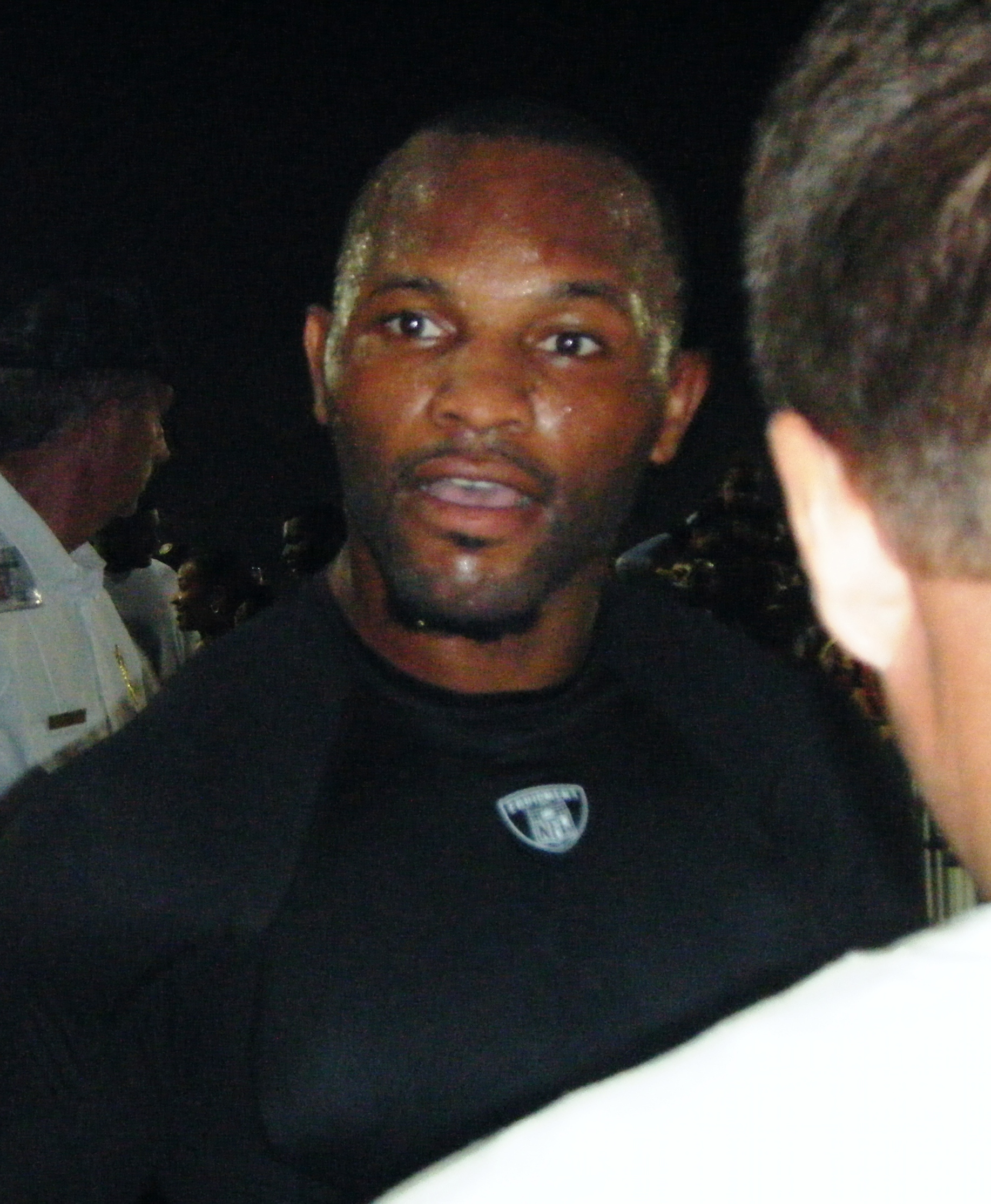 Fred Taylor, Jacksonville Jaguars running back, speaks with fans and signs autographs after practice at Jacksonville Municipal Stadium on July 28, 2008.